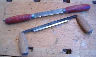 Two drawknives